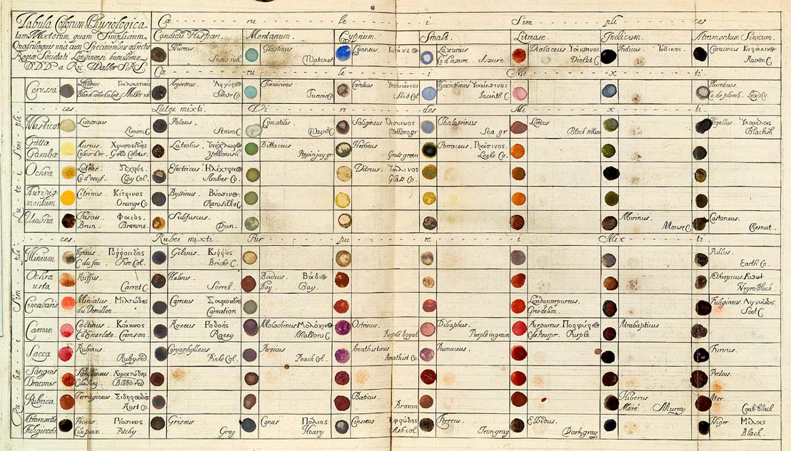 Tabula Colorum. From Richard Waller, "A Catalogue of Simple and Mixt Colours with a Specimen of Each Colour Prefixt Its Properties," in Philosophical Transactions of the Royal Society of London, vol. 6 for the years 1686 and 1687 (London, 1688), after page 32. ( Image from General Research Division, The New York Public Library, Astor, Lenox and Tilden Foundations.